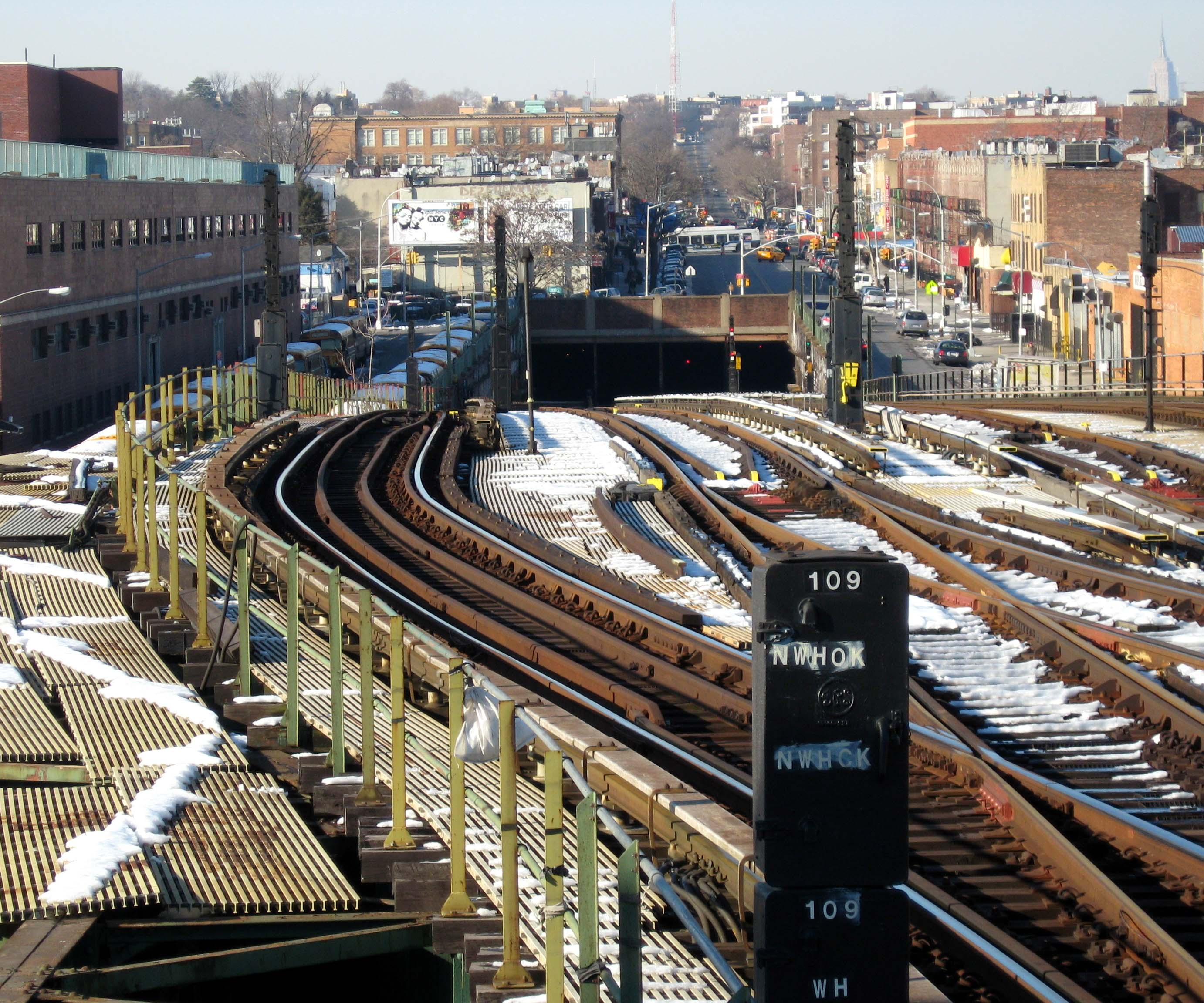 Looking down Culver Ramp of IND Culver Line into the South Brooklyn line, on a sunny winter afternoon.